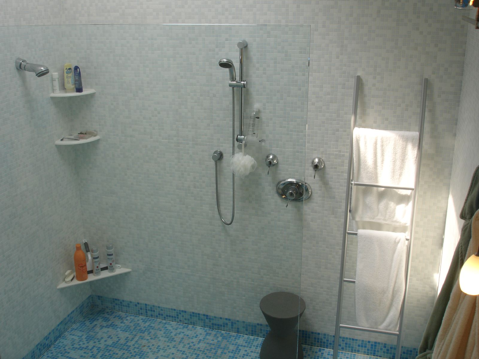 Shower integrated in bathroom. The shower is separated from the rest of the bathroom by a cantilevered 7 foot by 7 foot wall of glass.